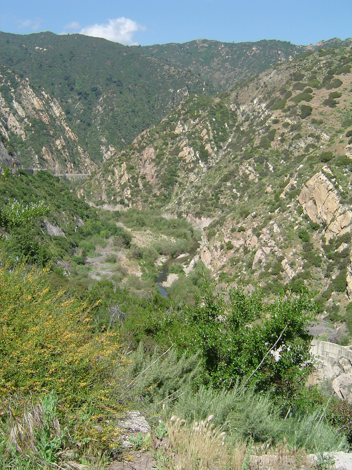 Malibu Canyon — looking north (upstream), in Malibu Creek State Park, Los Angeles County, California. Malibu Creek formed the canyon as it eroded through sedimentary layers as they were tilted upward to form the Santa Monica Mountains and thus it is older than the range itself. The Rindge Dam is visible at lower right, partly hidden by a Ceanothus bush. The dam was built by the owners of the Malibu Ranch (present day Malibu) in the early 20th century. It is now full of silt and serves no purpose while blocking the runs of endangered steelhead trout and is presently slated for removal. The common chaparral plants in the foreground are gray fine-leaved California sagebrush (Artemisia californica), and colorful Deerweed, (Lotus scoparius). This canyon burned in a brush fire in 1993, ten years prior to the photograph. Credits Photographed and uploaded by user:Geographer. Taken April 26, 2003.